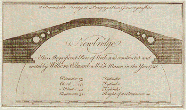 The Old Bridge (previously called Newbridge), Pontypridd, Wales